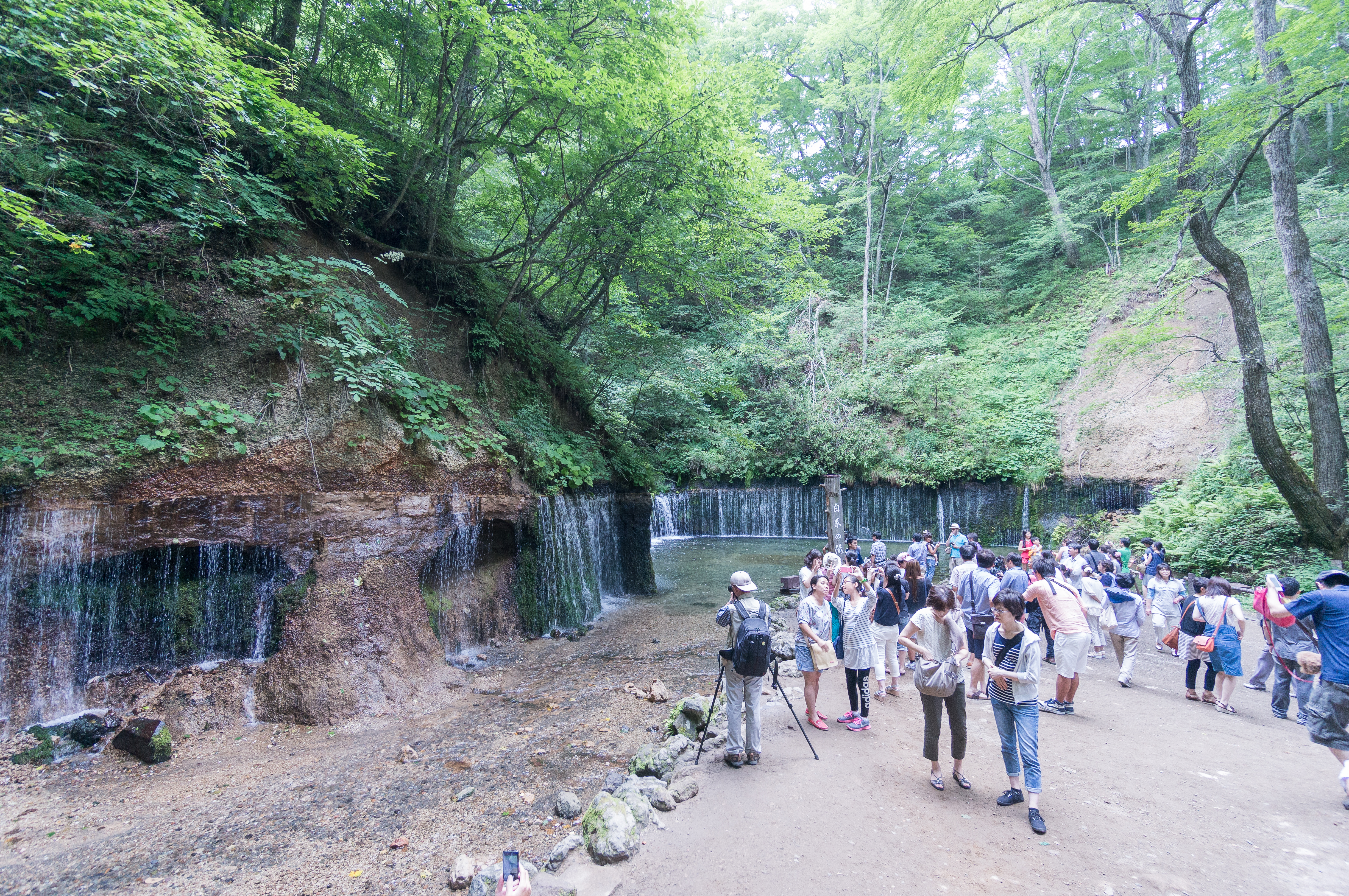 Shiraito Falls in Karuizawa, Nagano Prefecture, Japan.